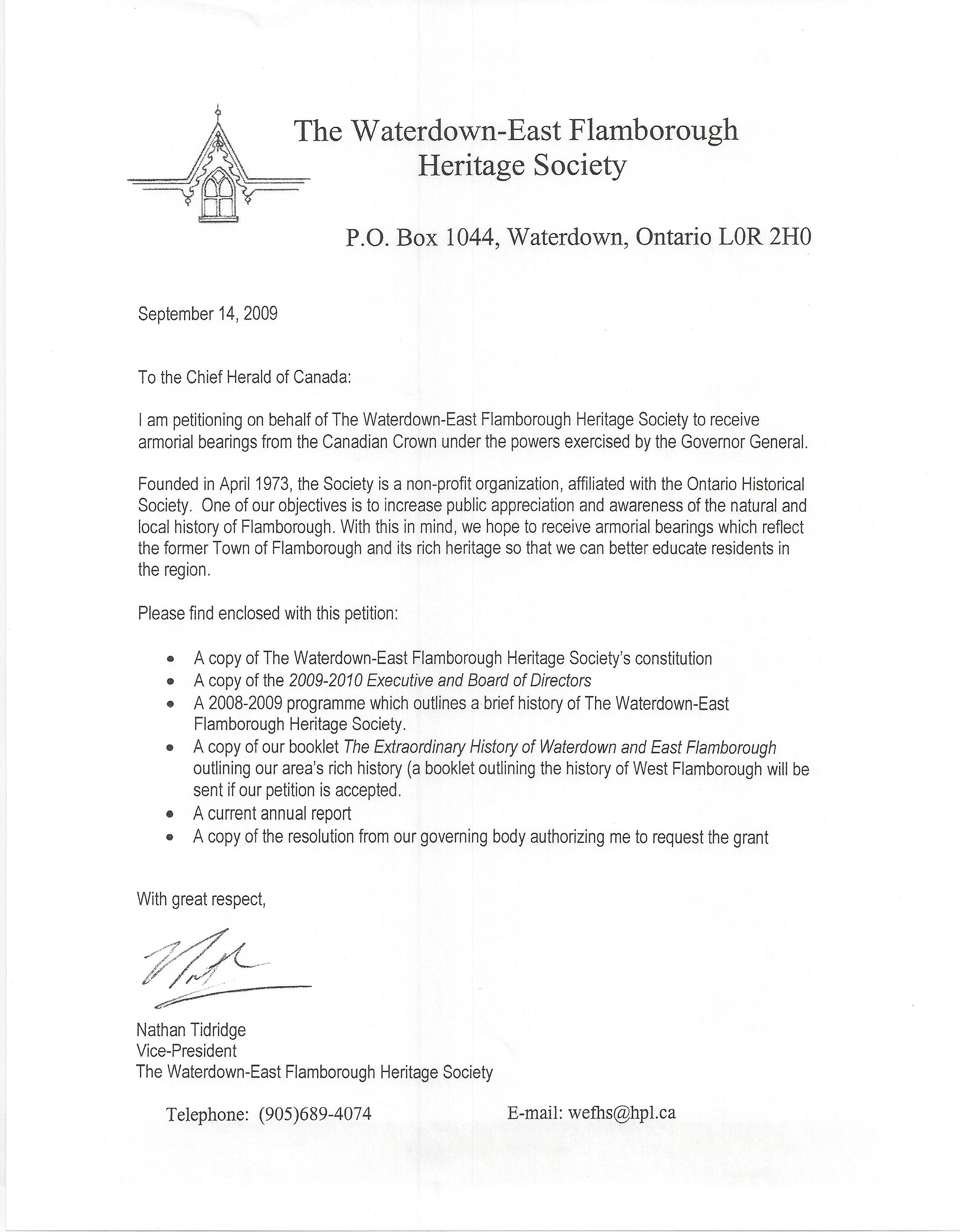 Petition for Arms